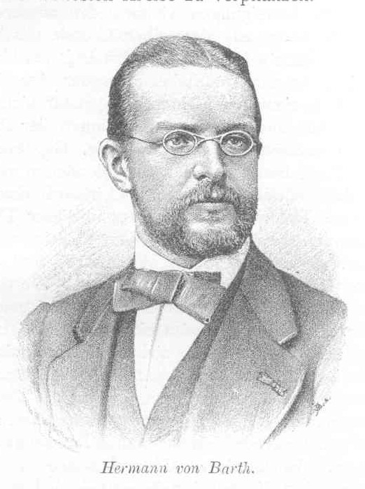 Scan from a historic book 1894